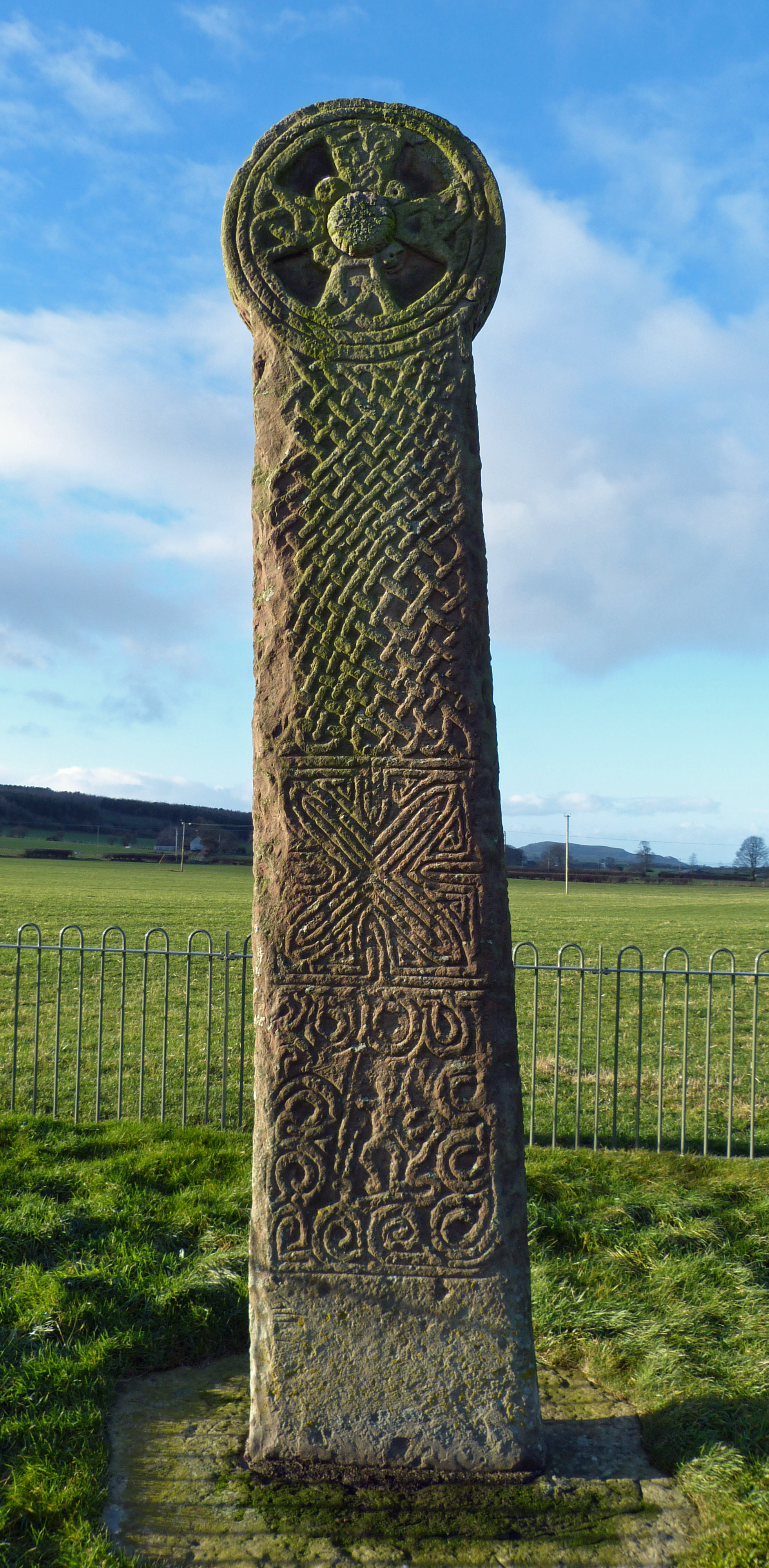 Possibly a "lamentation stone" not too far from Whitford.